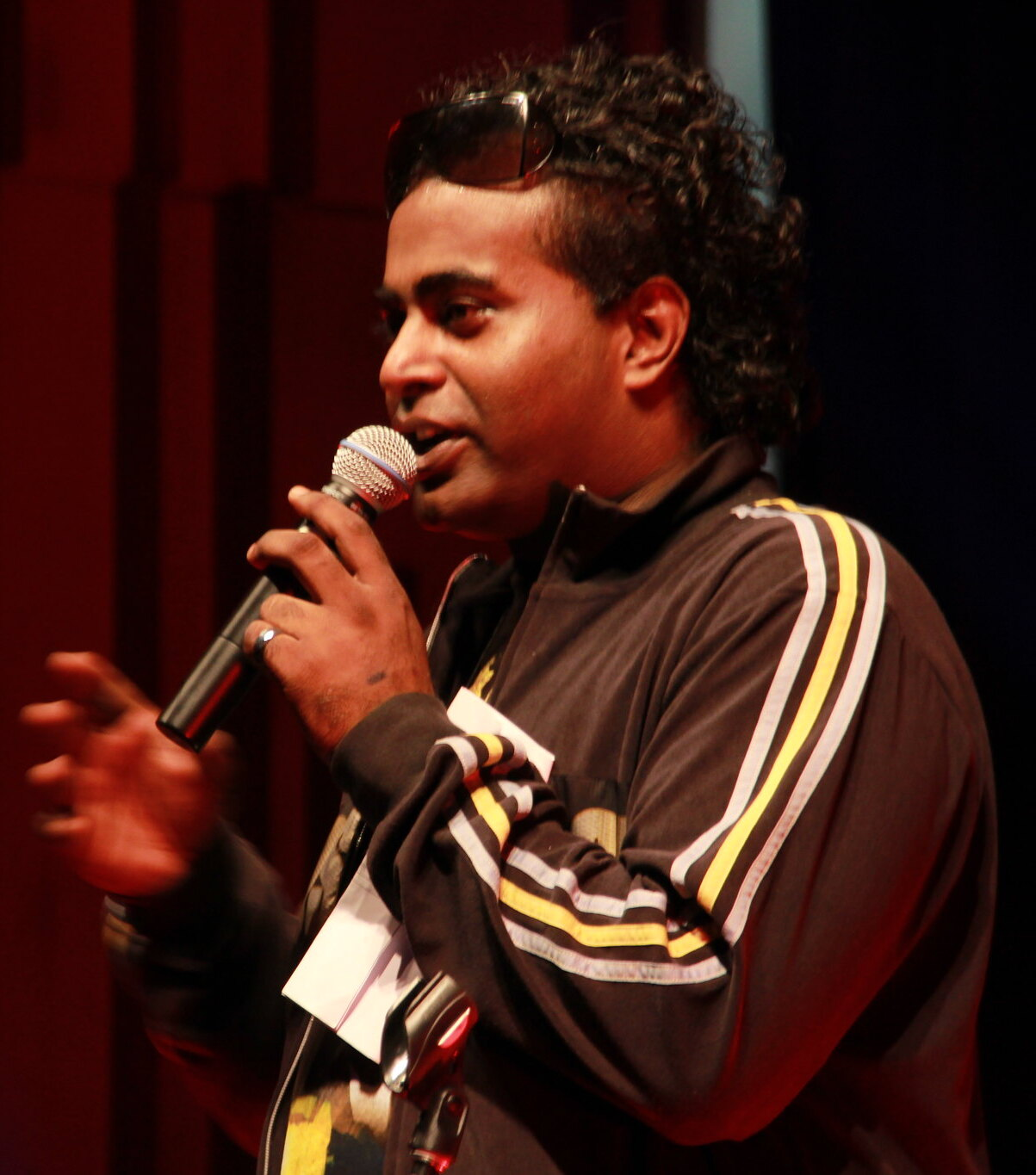 Sasi The Don at the Aloud Asia Vol. 2